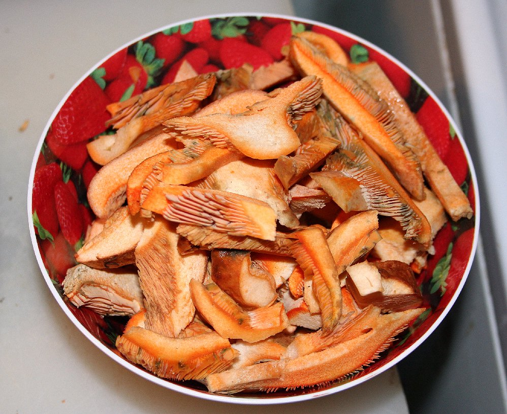 Sliced saffron milk cap - yum yum....my kitchen